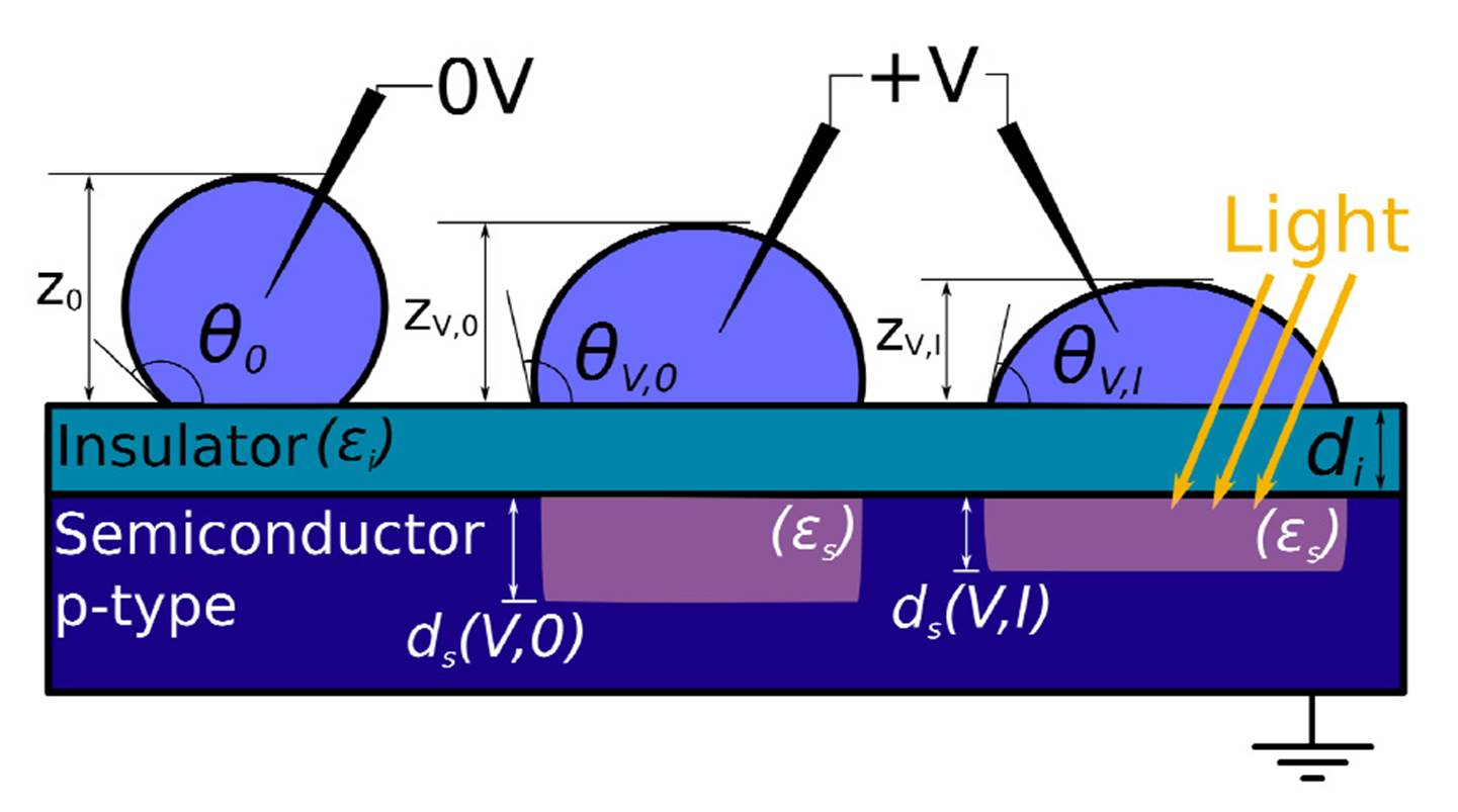 The image shows the basic principle of the photoelectrowetting effect. The left image shows a droplet wetting a surface at zerobias. The middle image shows the electrowetting of the droplet at a positive voltage generates a space charge region at the insulator/semiconductor interface. The right image shows photoelectrowetting when light modifies the space charge region.